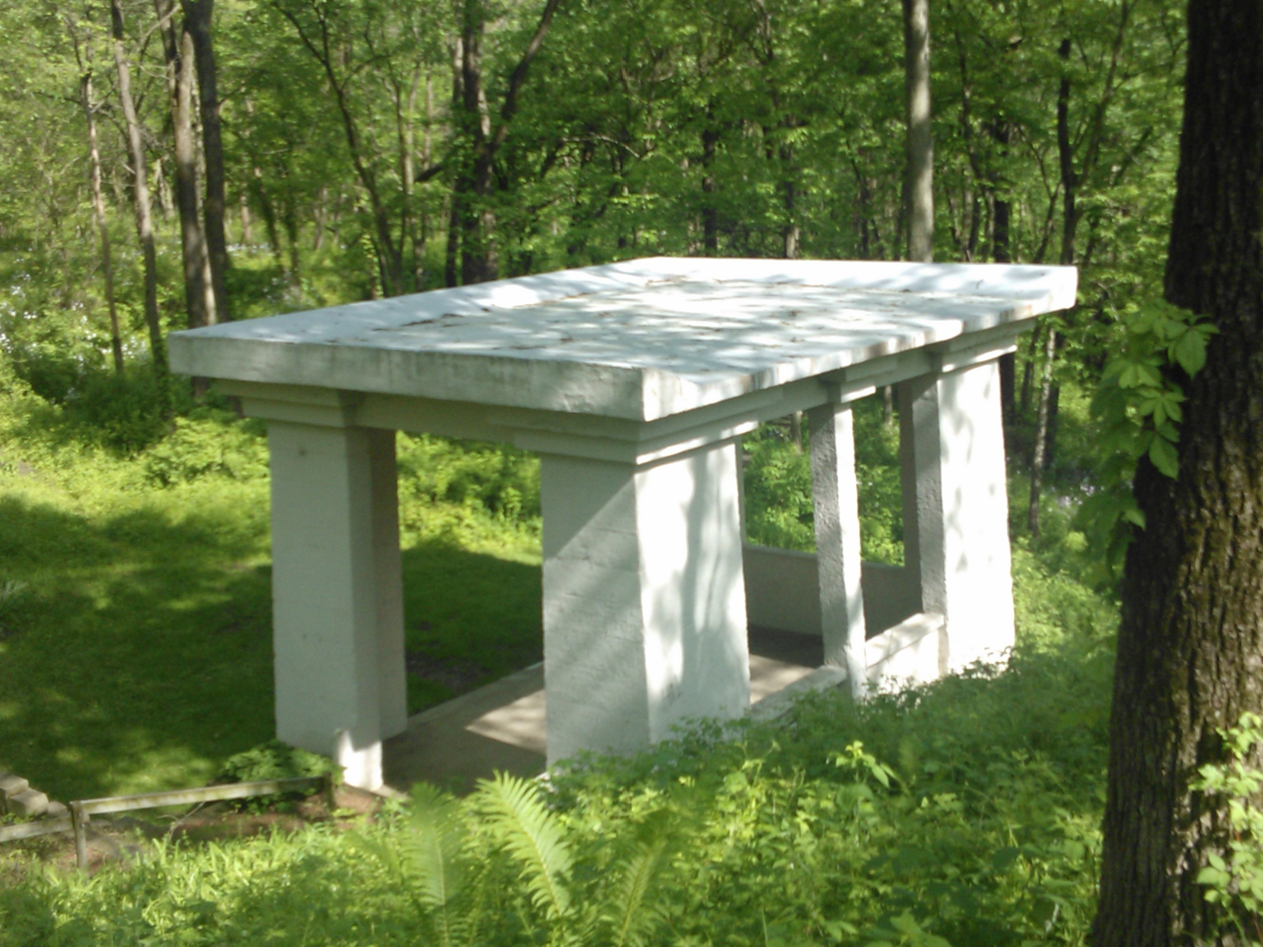 Schuetzen Park Streetcar Station in Daveport, Iowa. Listed on the Davenport Register of Historic Properties.